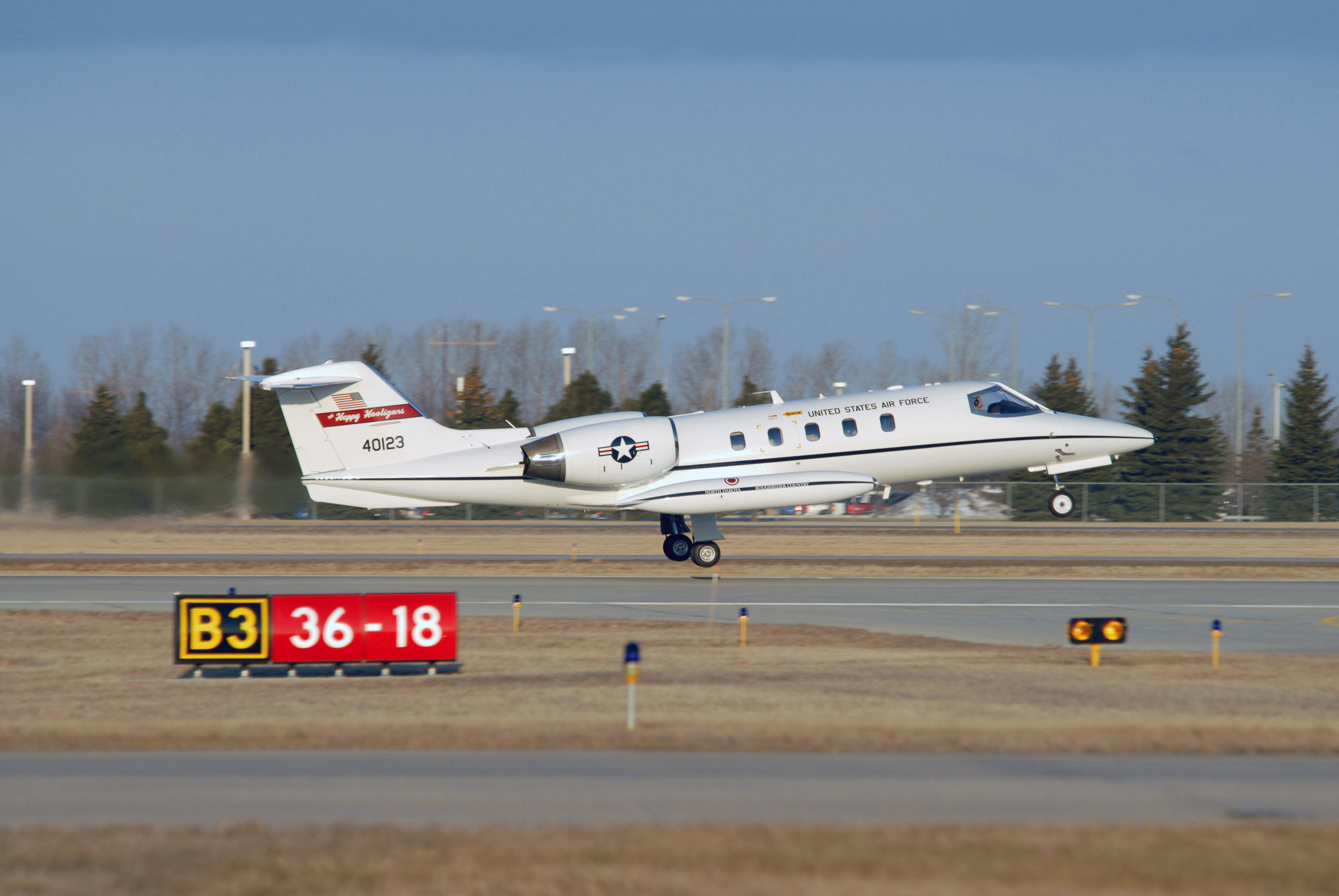 A North Dakota Air National Guard (NDANG) 119th Fighter Wing (Happy Hooligans) C-21A Learjet passenger aircraft, piloted by NDANG Col. Robert J. Becklund, Commander, 119th Fighter Wing (FW), and Maj. Jon R. Wutzke, Pilot, 119th FW, takes off from Hector International Airport, Fargo, N.D., on March 19, 2007, as the Happy Hooligans go through a mission transition from flying F-16C Fighting Falcon fighter aircraft to flying the C-21A.